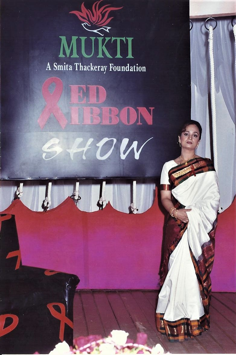 In November 2000 Mukkti Foundation hosted, a 13 episode Television chat show hosted by Sonu Nigam on HIV/AIDS, it was aimed at overthrowing the social stigmas around HIV/AIDS.